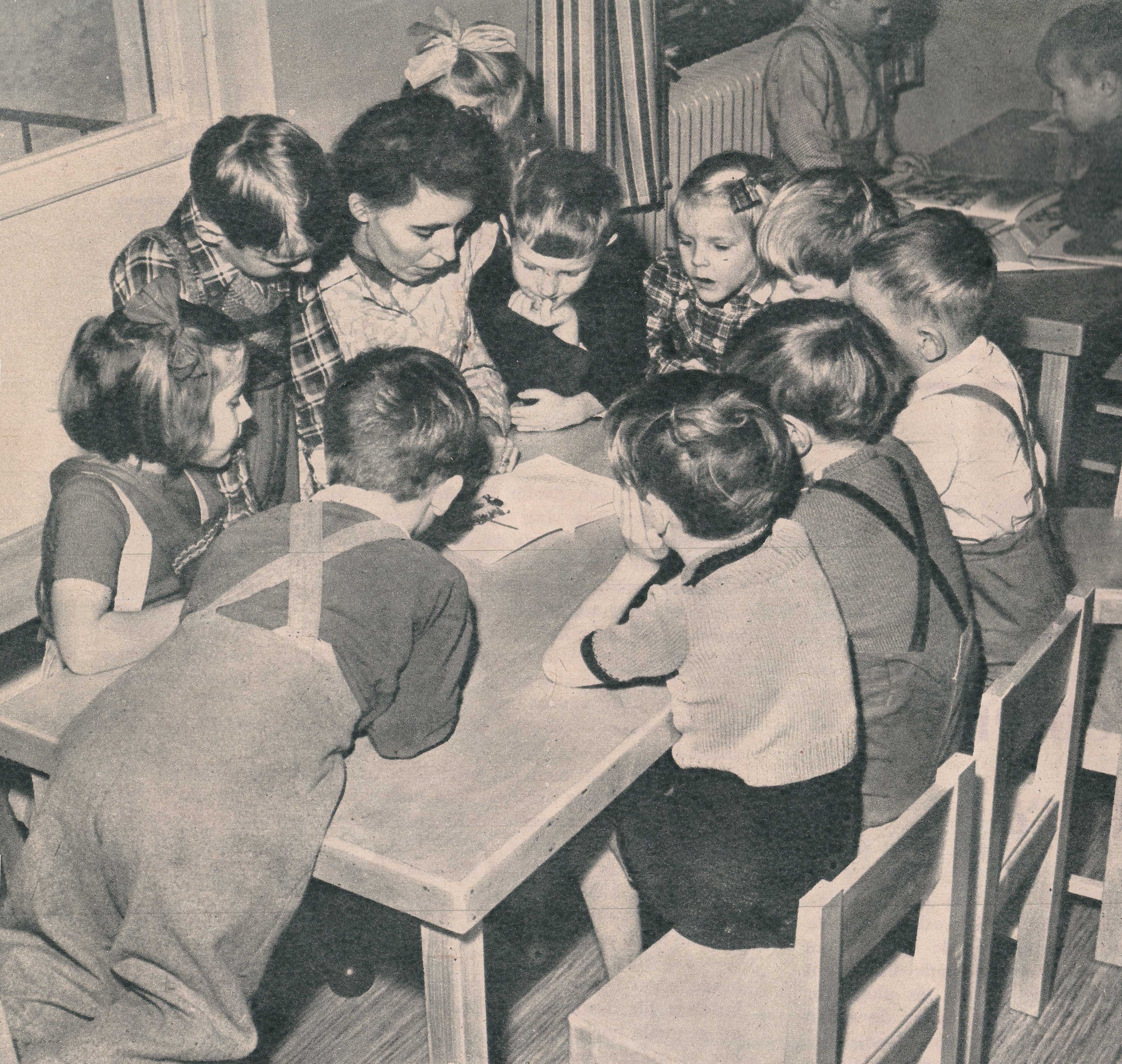 Children in the Swedish nursery school Banérskolan.